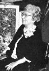 An older white woman wearing a dark suit and glasses, seated in a wheelchair. She is smiling, and wearing a corsage. One hand is resting on her lap.